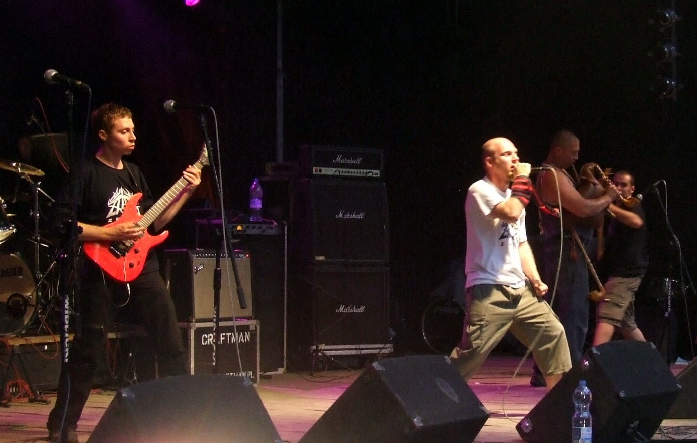 Band Znich at Basowiszcza festival 2007.